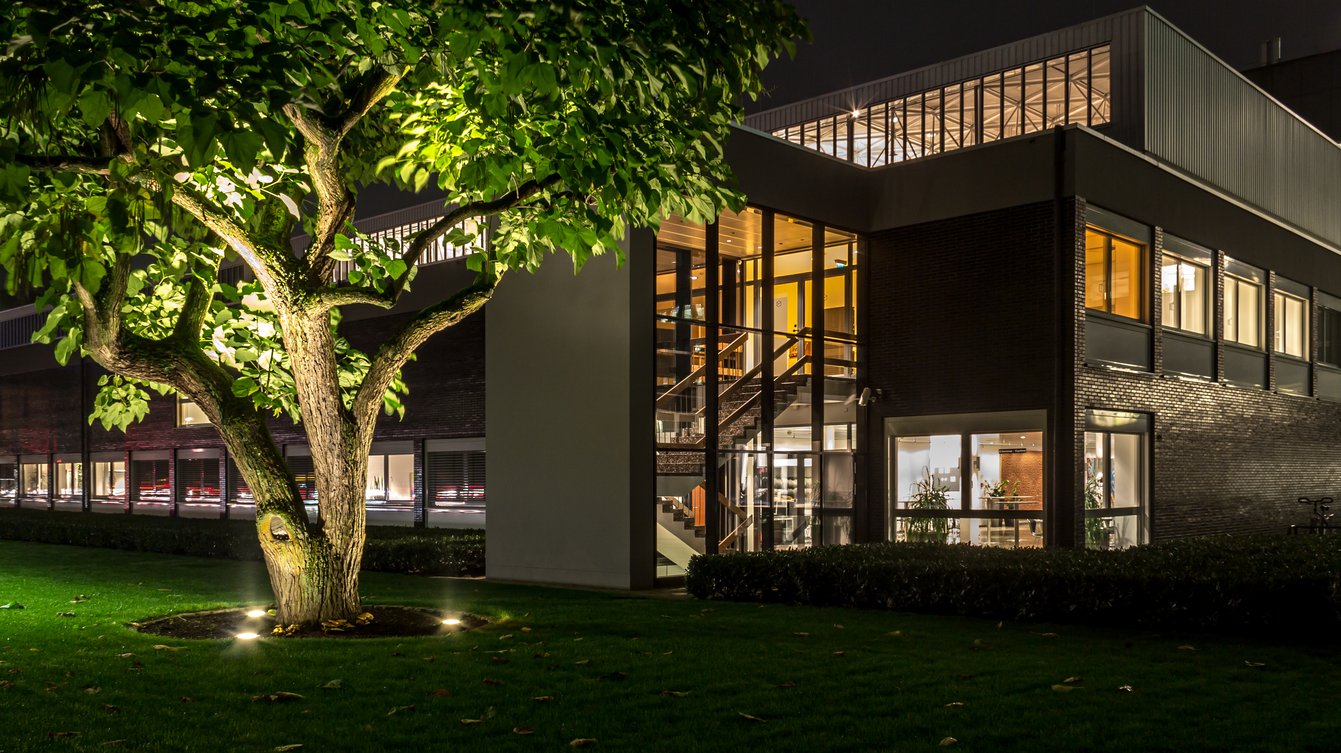 Office building near the entrance of the Westdeutsche Lotterie (at the Weseler Straße), Münster, North Rhine-Westphalia, Germany